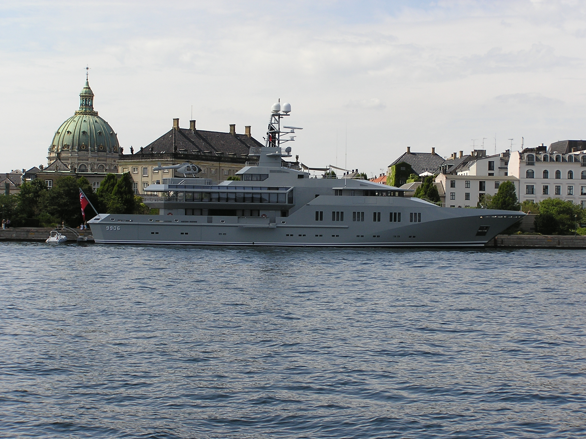 Picture taken on July 13, 2006 by Jan Lillelund. Shows the yacht "SKAT" anchored at Amaliehaven, Copenhagen, Denmark.